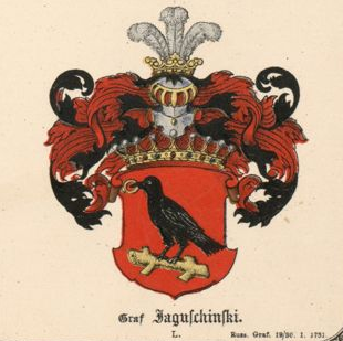 Count Jagodziński’s Korwin coat of arms (Germanized: Jaguschinski), Polish Nobleman, entitled as Count in the Russian empire in 1731; according to Carl Arvid von Klingspor’s Baltic Armorial illustrated by Adolf Matthias Hildebrandt.